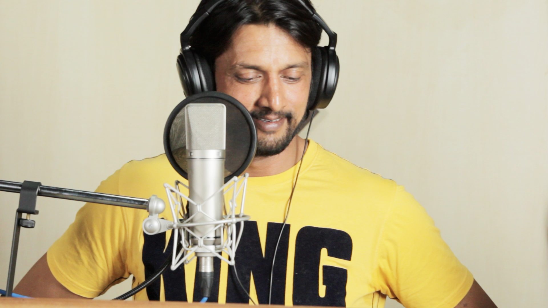 Actor Sudeep records his voice for the Kannada language version of the TeachAIDS animation in Bangalore, Karnataka. Photo credit: TeachAIDS